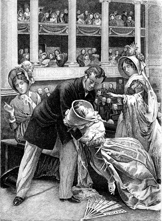 Illustration of Honoré de Balzac's The Deputy from Arcis (1847): In the Chamber of Deputies.